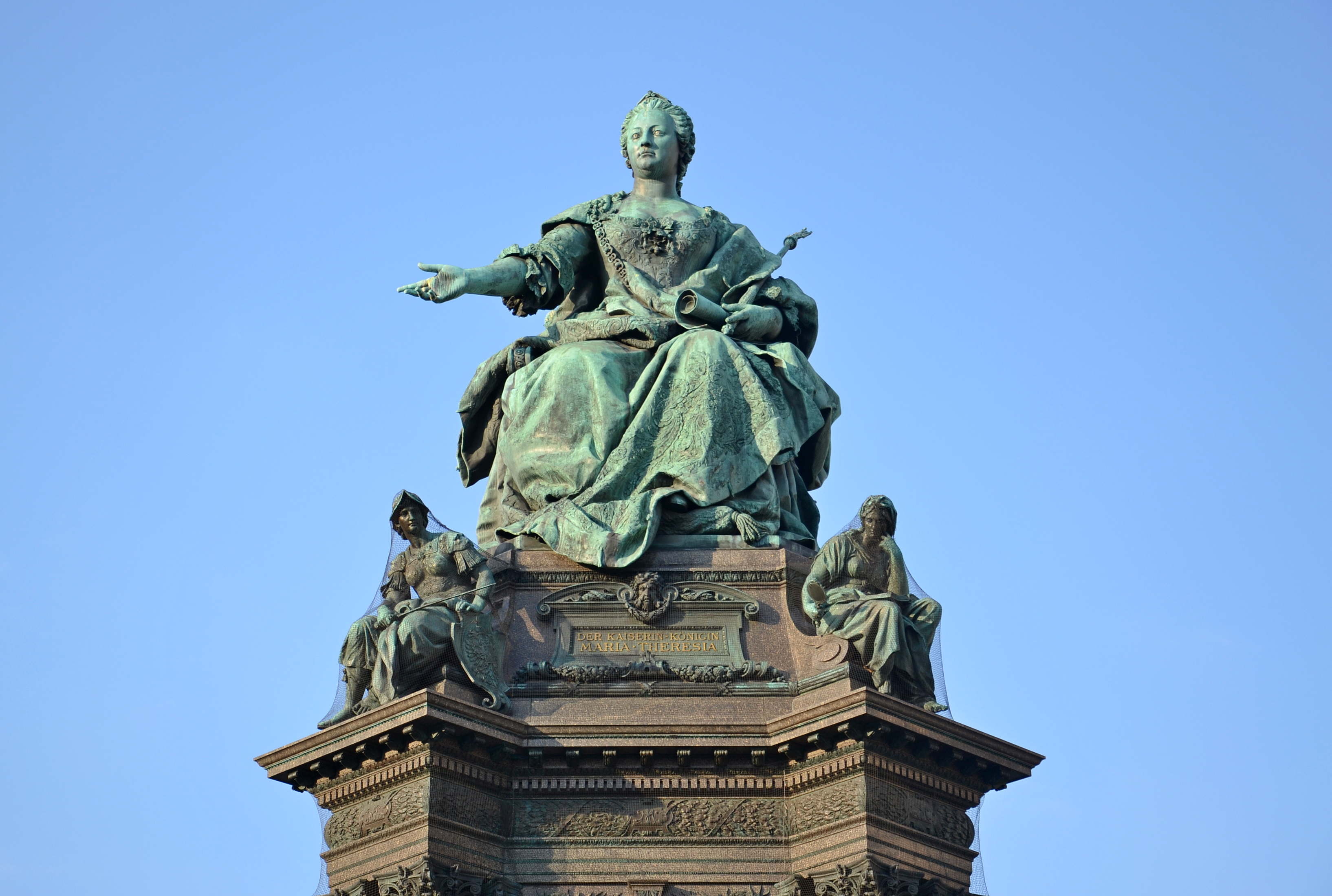 Empress Maria Theresia monument in Maria-Theresien-Platz, Vienna, Austria